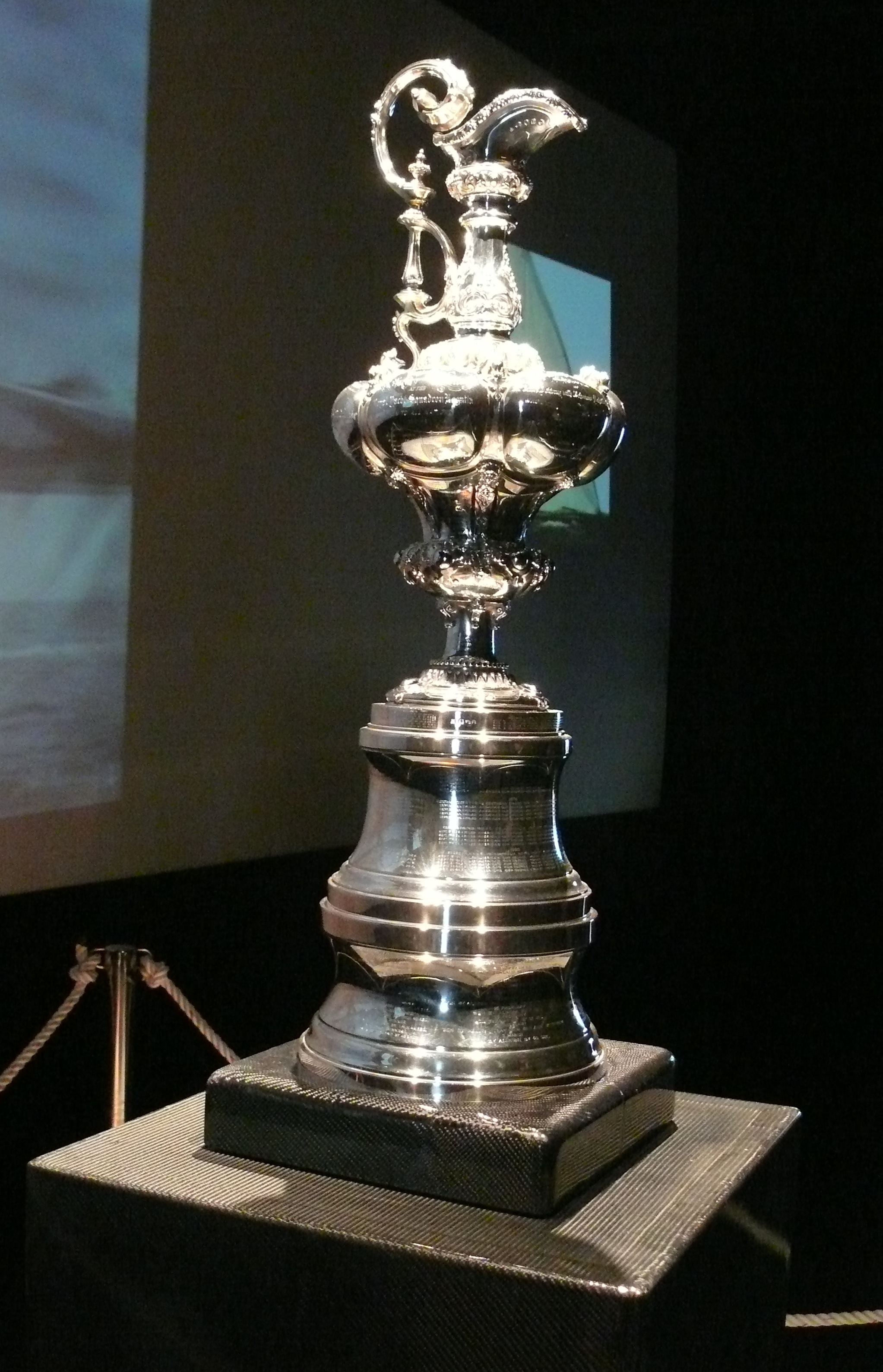 33rd America's Cup, Valencia, Spain